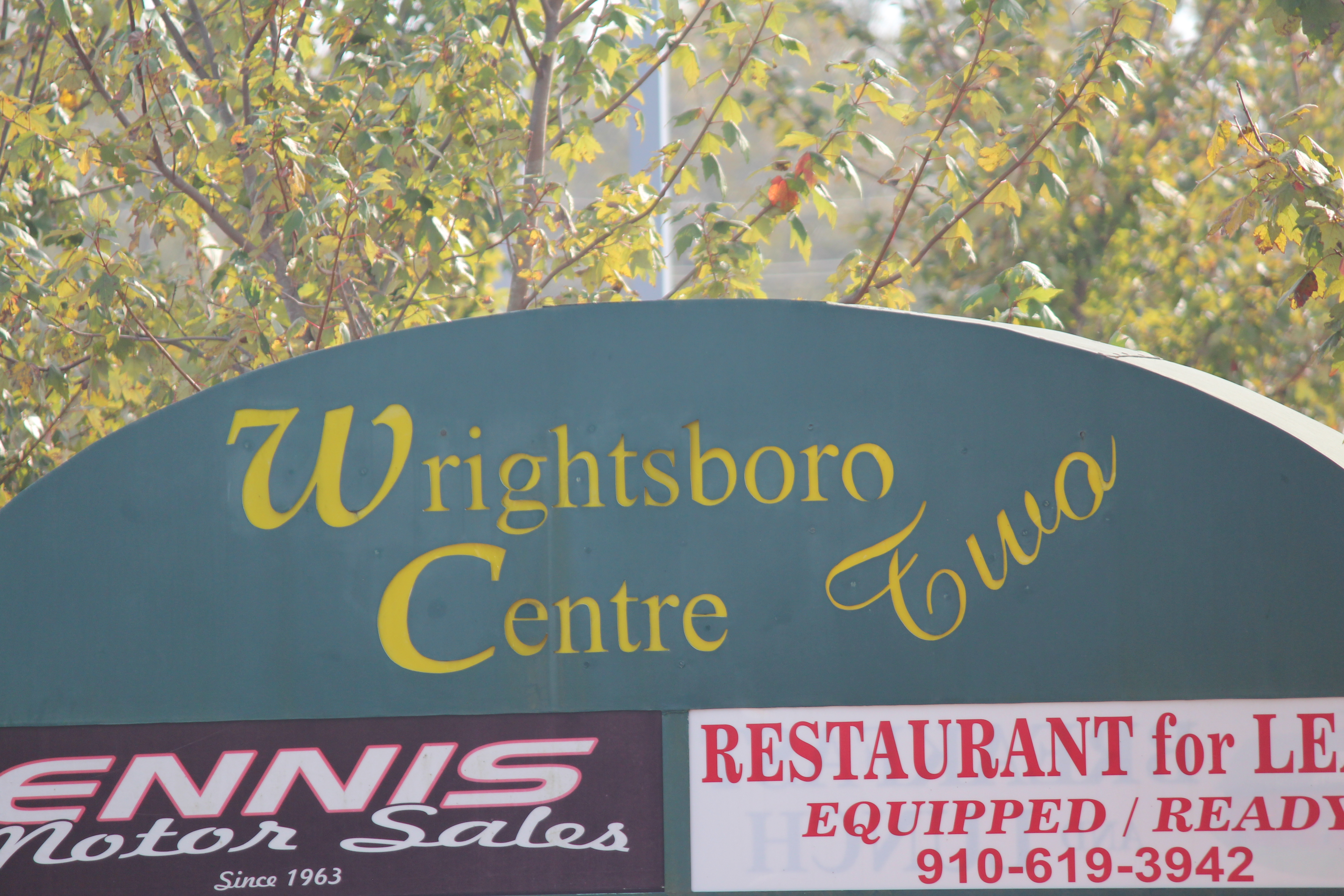 Wrightsboro is a census-designated place (CDP) in New Hanover County, North Carolina, in the United States.